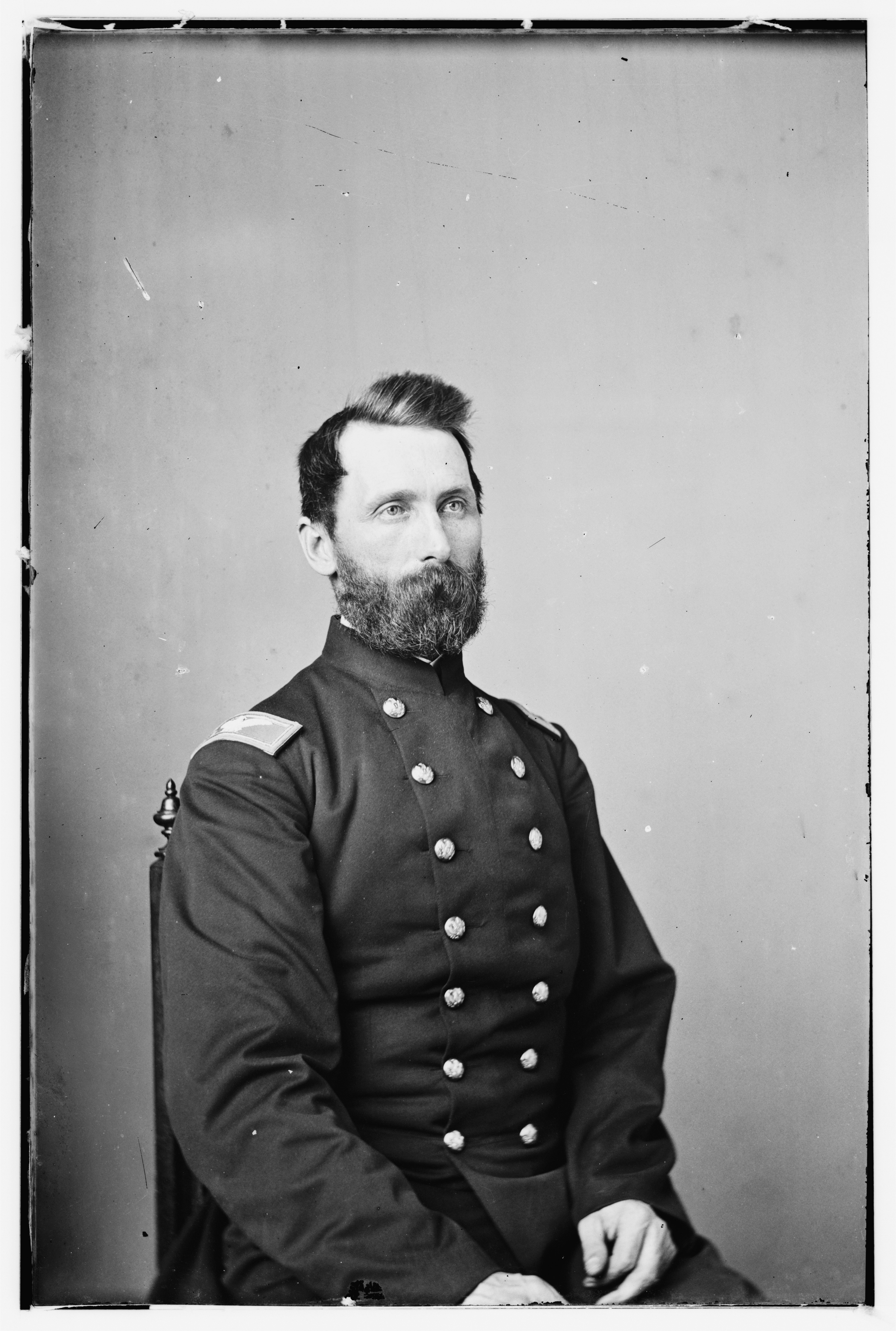 Title: Gen. N.B. McLaughlen, Col. of 57th Mass. Inf., U.S.A. Physical description: 1 negative